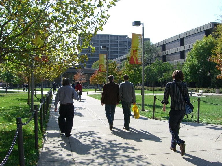 University of Illinois at Chicago - East Campus (taken October 2005 by Onar Vikingstad).